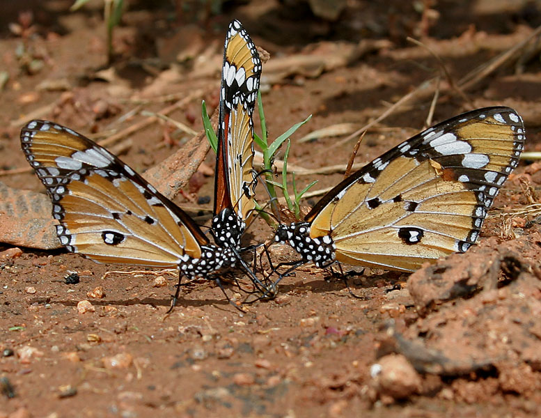 Plain Tiger Danaus chrysippus in Hyderabad , India.